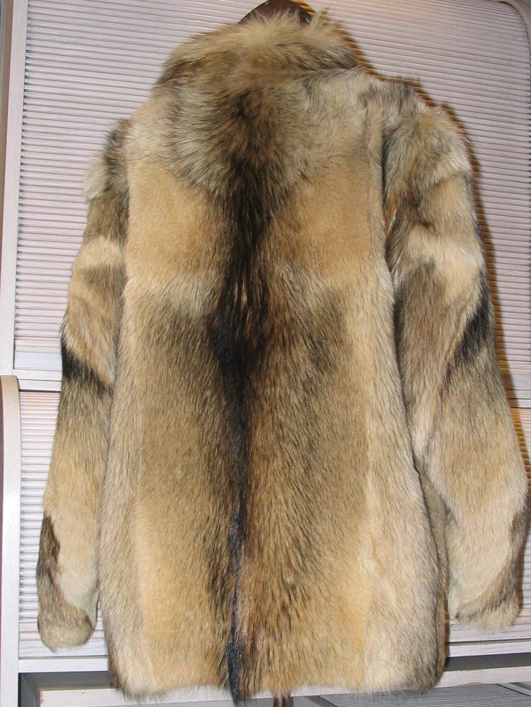 Dog skin jacket